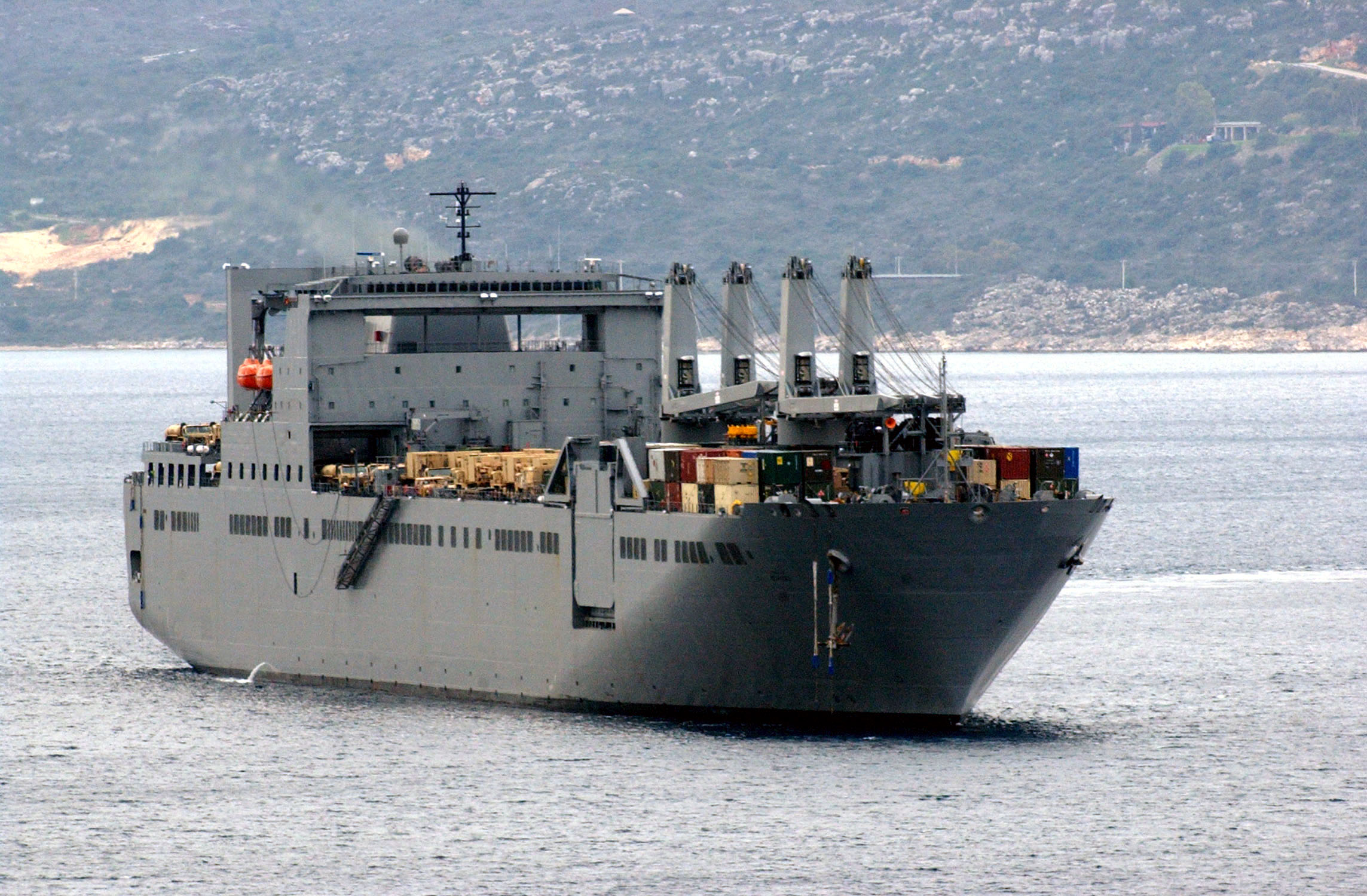 Souda Bay, Crete, Greece (Jan. 07, 2004) -- Large, Medium-Speed Roll-on/Roll-off Ship USNS Benavidez (T-AKR 306) heads out of Souda harbor following a brief port visit. Benavidez is carrying more than 230,000 square feet of U.S. Army combat equipment and supplies, belonging to the Ft. Hood, Texas based 1st Cavalry Division currently deploying for service in Iraq. The ship sailed from the U.S. and will off-load in Kuwait. The move is part of a standard rotation of forces and their equipment in and out of Iraq. The 950-foot vessel is named for Medal of Honor recipient Army Master Sergeant Roy P. Benavidez. USNS Benavidez is one of Military Sealift Command's nineteen Large, Medium-Speed Roll-on/Roll-off Ships and is part of the 28 ships in the Sealift Program Office. U.S. Navy photo by Paul Farley. (RELEASED)